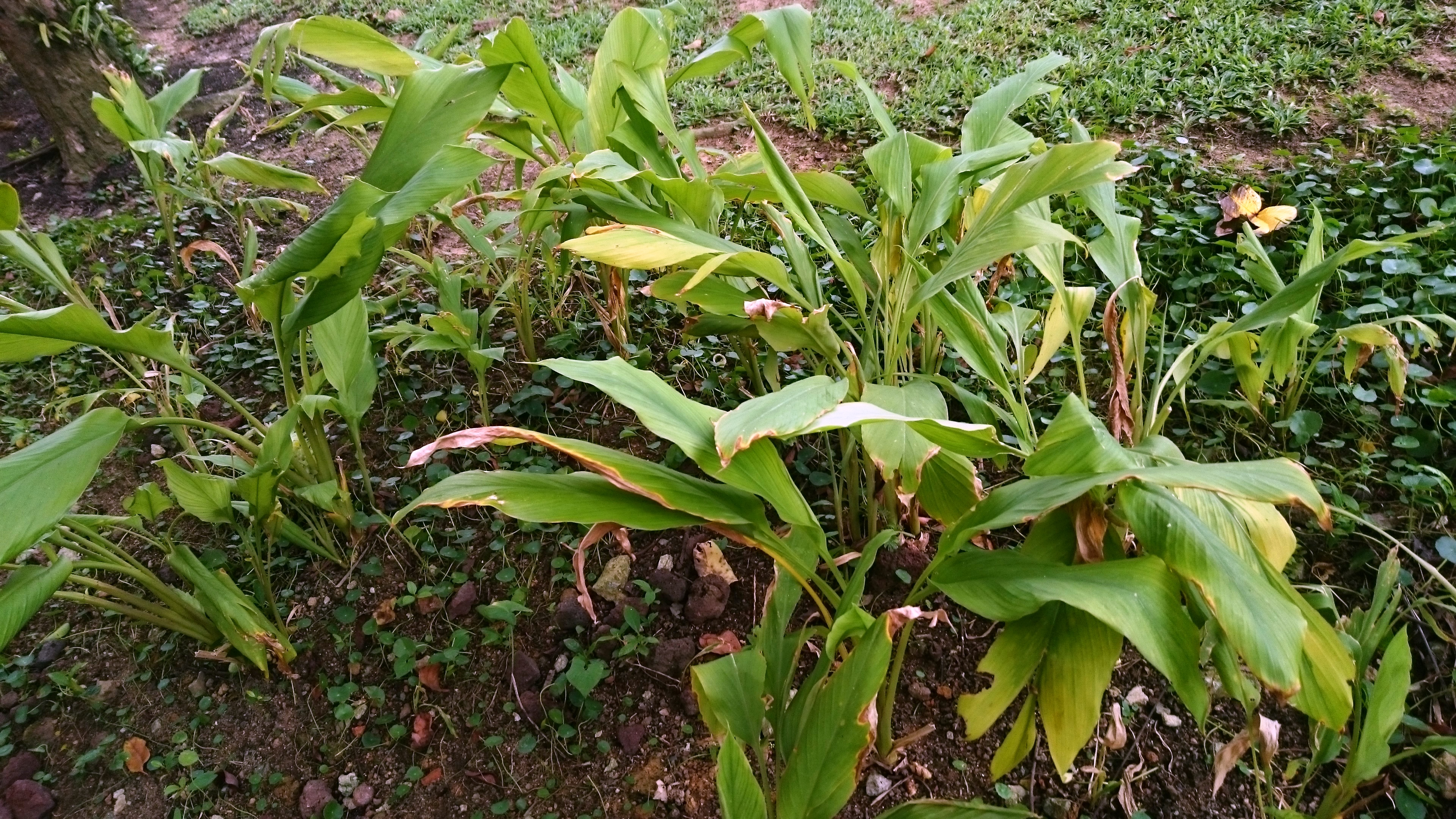 Curcuma longa. Common names: turmeric, kunyit. This perennial plant from the ginger family is native to south/southeast Asia. It is also known as yellow ginger because of its orange-yellow rhizome. Turmeric had been used as a substitute for saffron, and was known as Indian saffron. It can be boiled, dried, peeled or ground. Turmeric is used to flavour all kinds of dishes, and is an essential ingredient of curry powder. In India, turmeric is used to dye textiles into deep rich yellow. It is also used in the traditional medicinal practices of many Asian cultures, including Ayurvedic medicine and jamu concoctions.